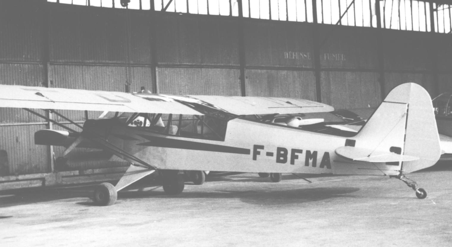 Piper PA-11 Cub Special at Chelles-le-Pin airfield near Paris